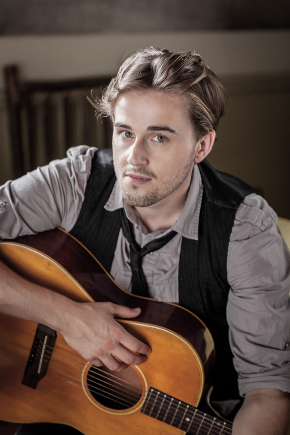 Photo of Seth Glier with his guitar.